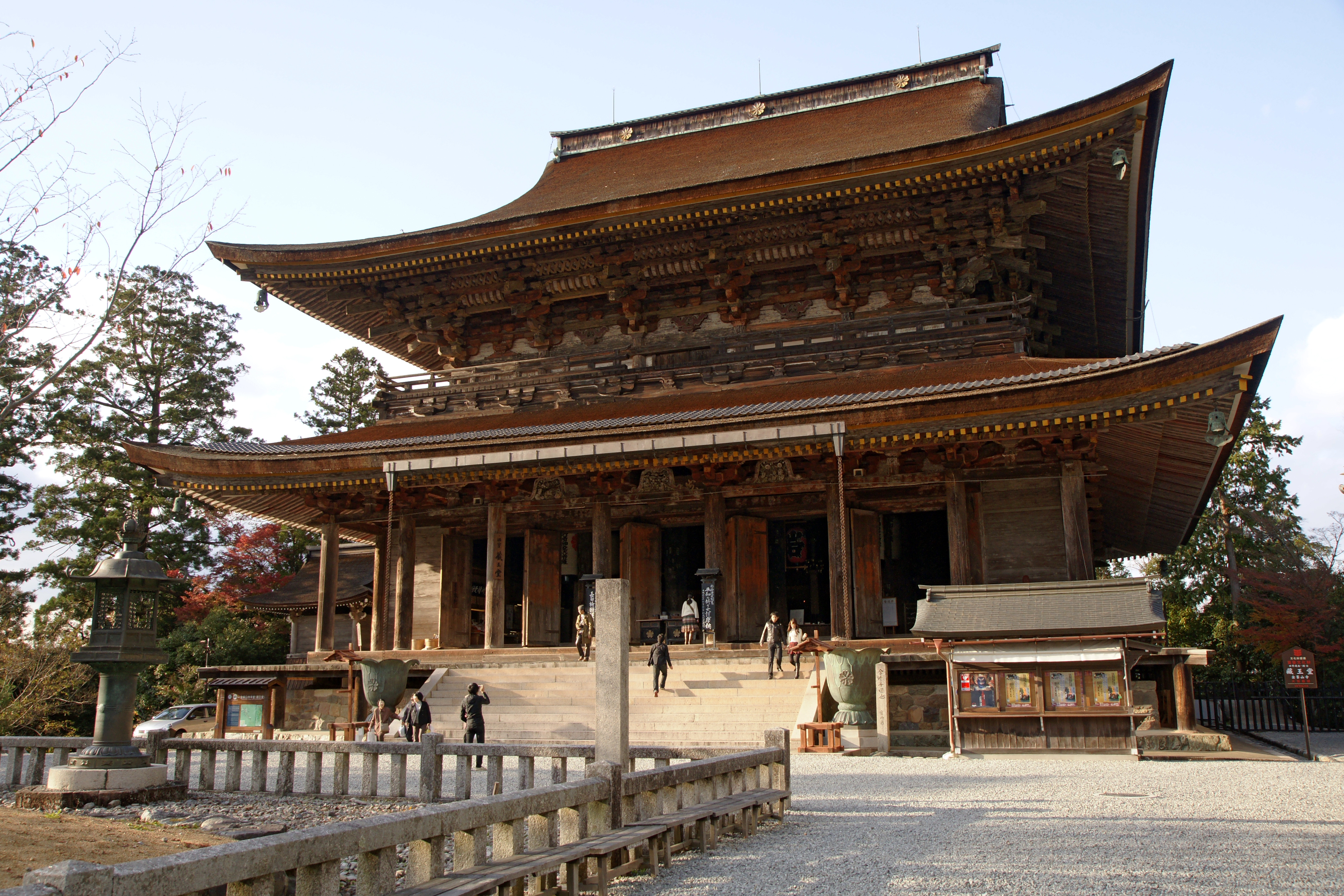 Zaodo (Hondo) of Kinpusenji Buddhist temple (Japan's National Treasure) in Yoshino, Nara prefecture, Japan. It was rebuilt in 1592.